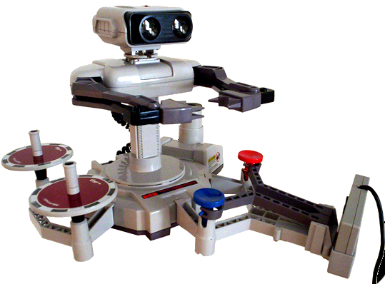 Photo by Caleb Goessling of Nintendo's Robotic Operating Buddy, equipped with parts for Gyromite. Submitted by the photographer.